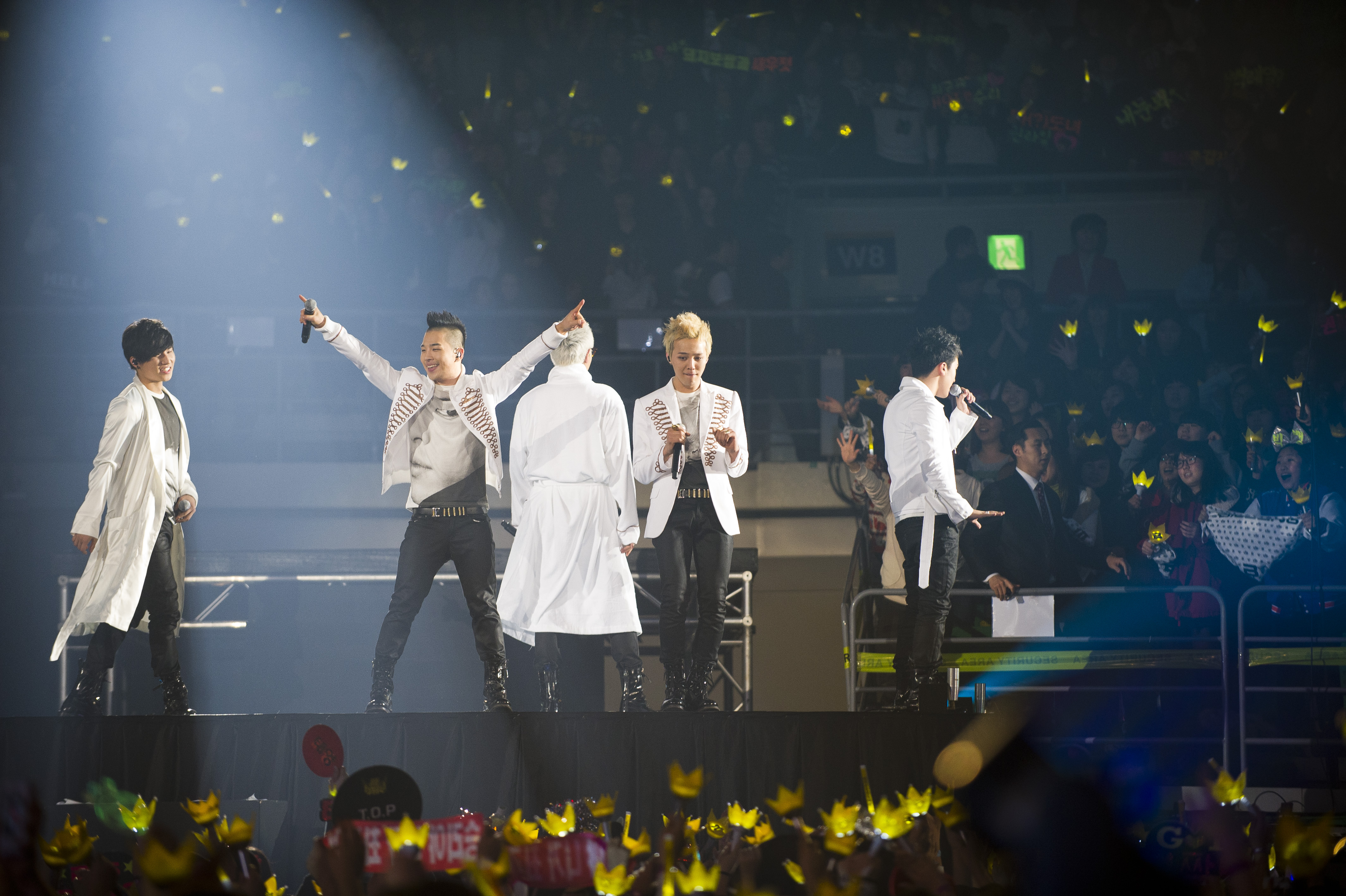 Hallyu, the Korean wave Hallyu refers to spread of Korean culture around the world. Big Bang, a Korean boy band who recently released another album has been promoting themselves not as Hallyu stars, but as artists.